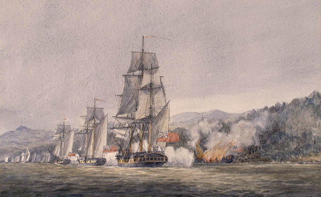 Battle of Valcour Island in the American Revolutionary War.